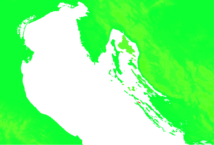 Island of Croatia Croatia - Zverinac.PNG